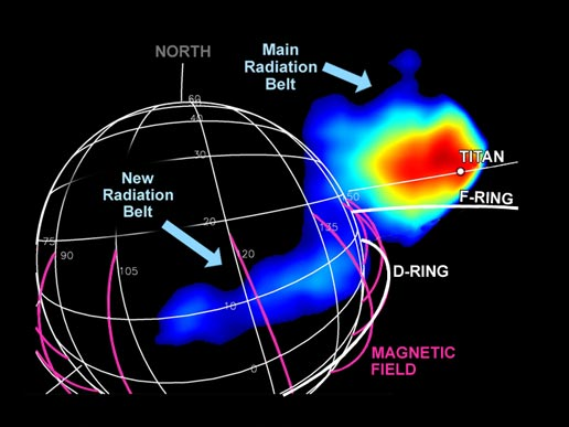 The radiation belts of Saturn. The main belt as well as the newly discovered inner belt are visible.